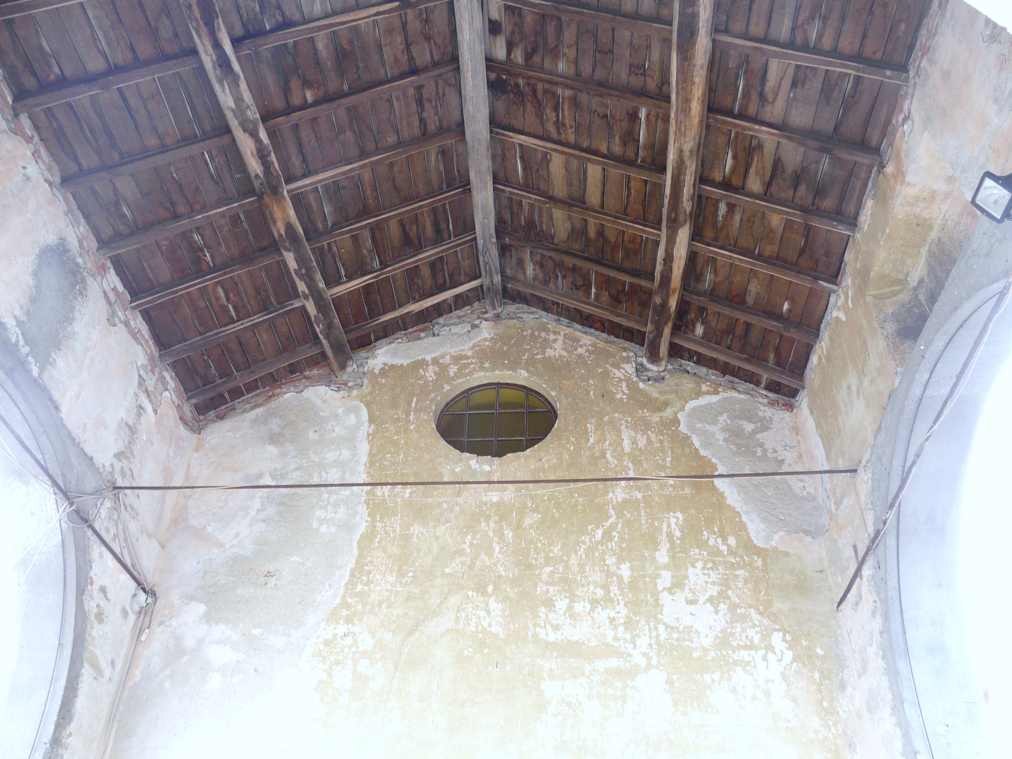 Roof top of the church "San Rocco", Cosseria, Liguria